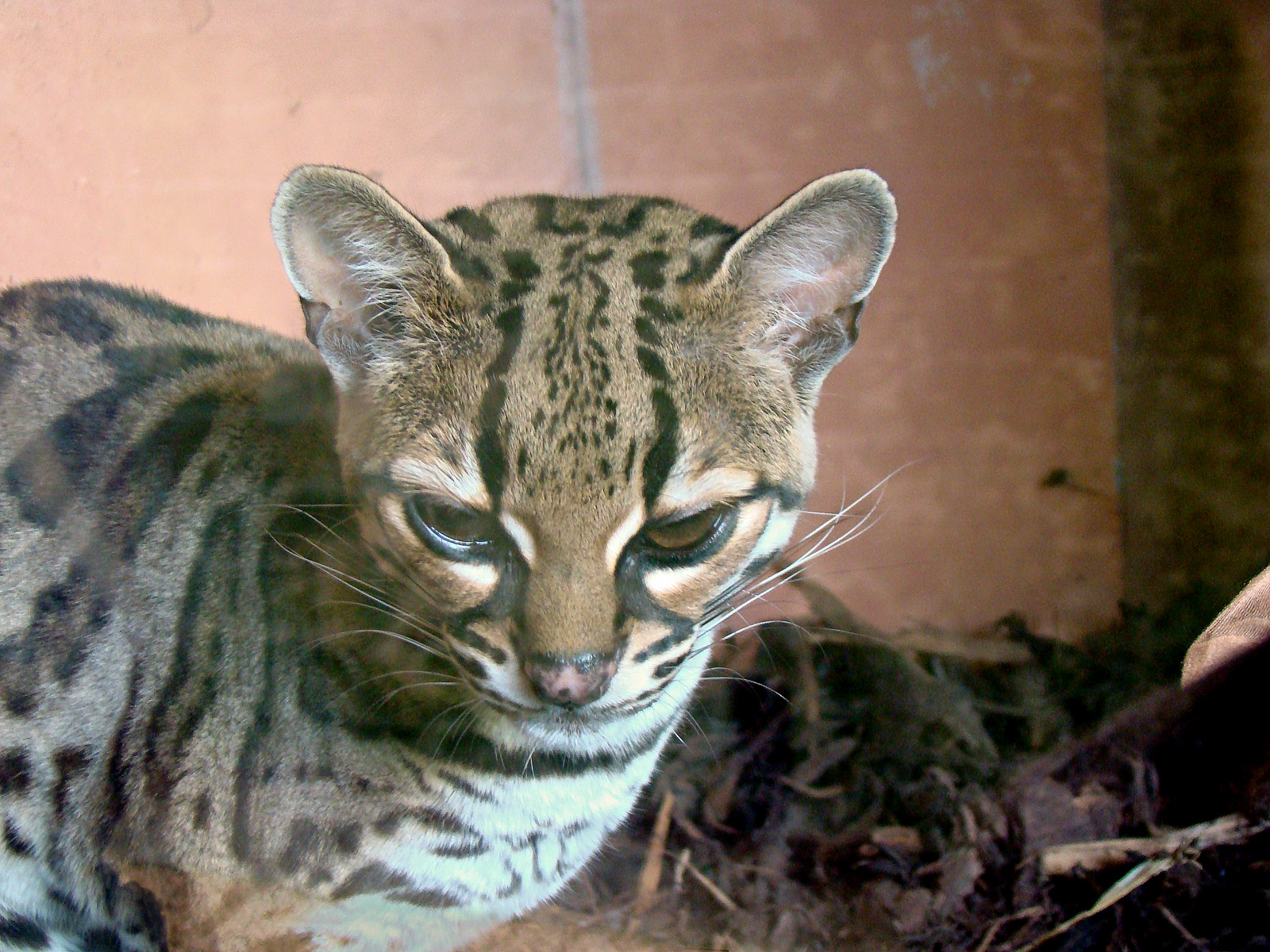 Margay (Leopardus weidii). Photo taken in Edinburgh Zoo.